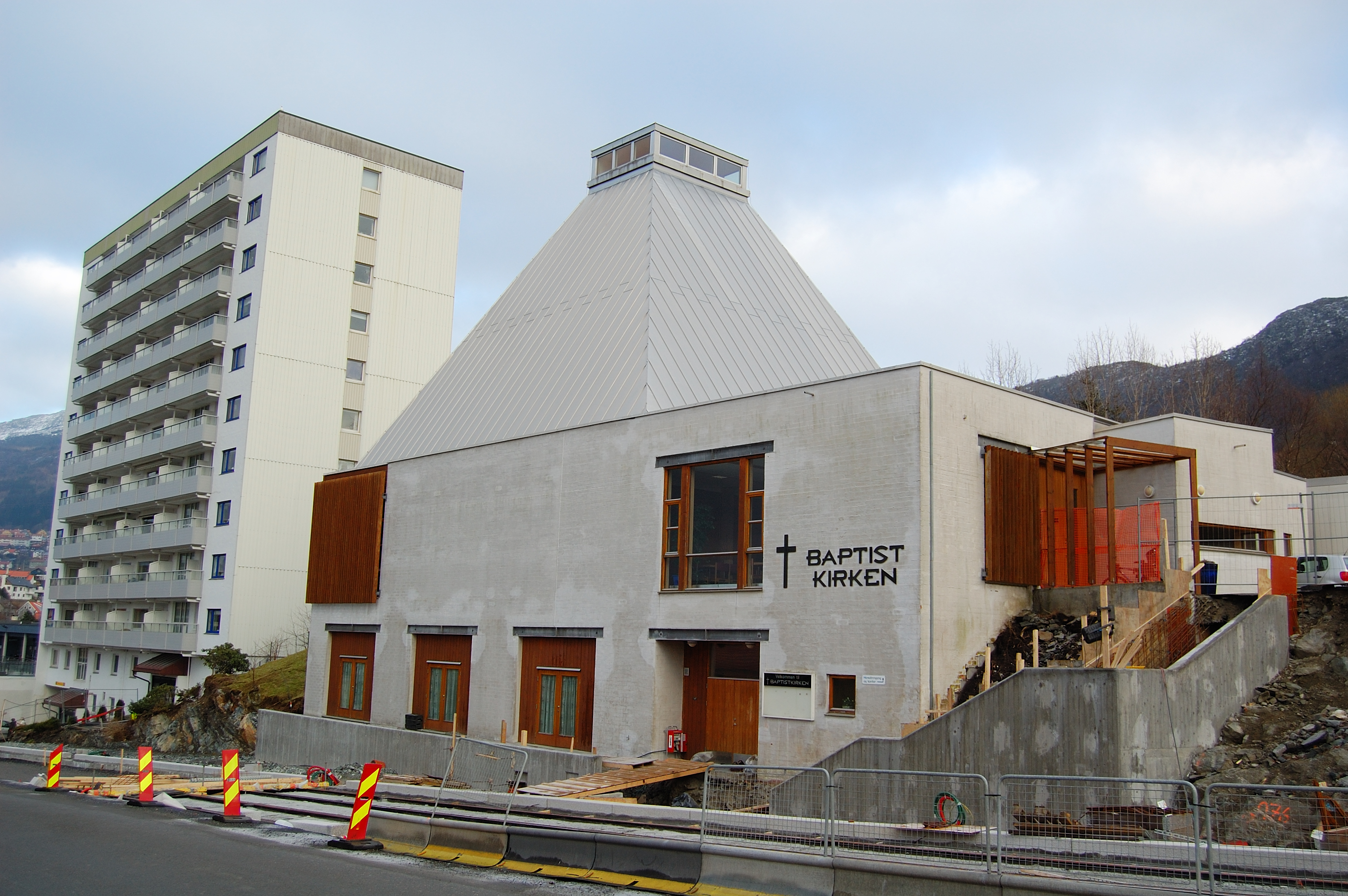 Baptist kirken in Bergen, Norway.